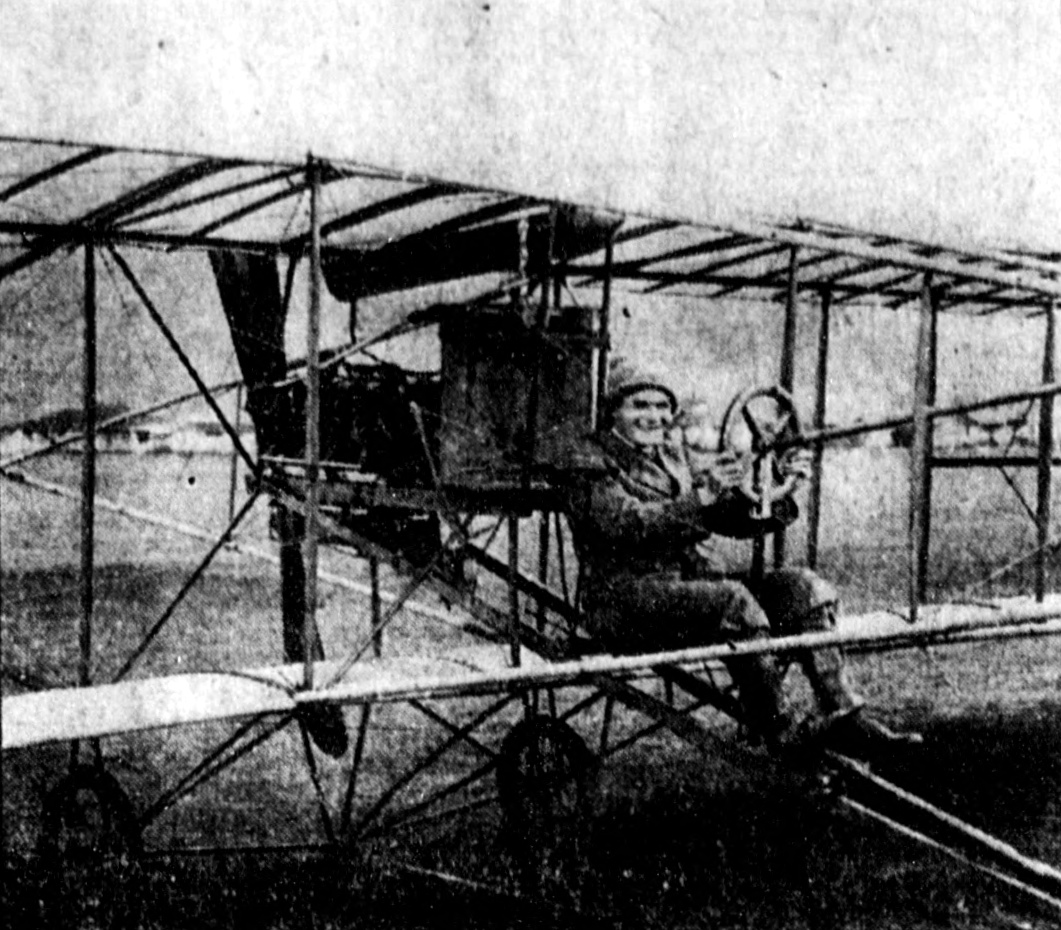 Didier Masson (23 February 1886 – 2 June 1950) was a pioneering French aviator. Here he is depicted in a newspaper that falsely reported his possible death as a mercenary in Mexico.